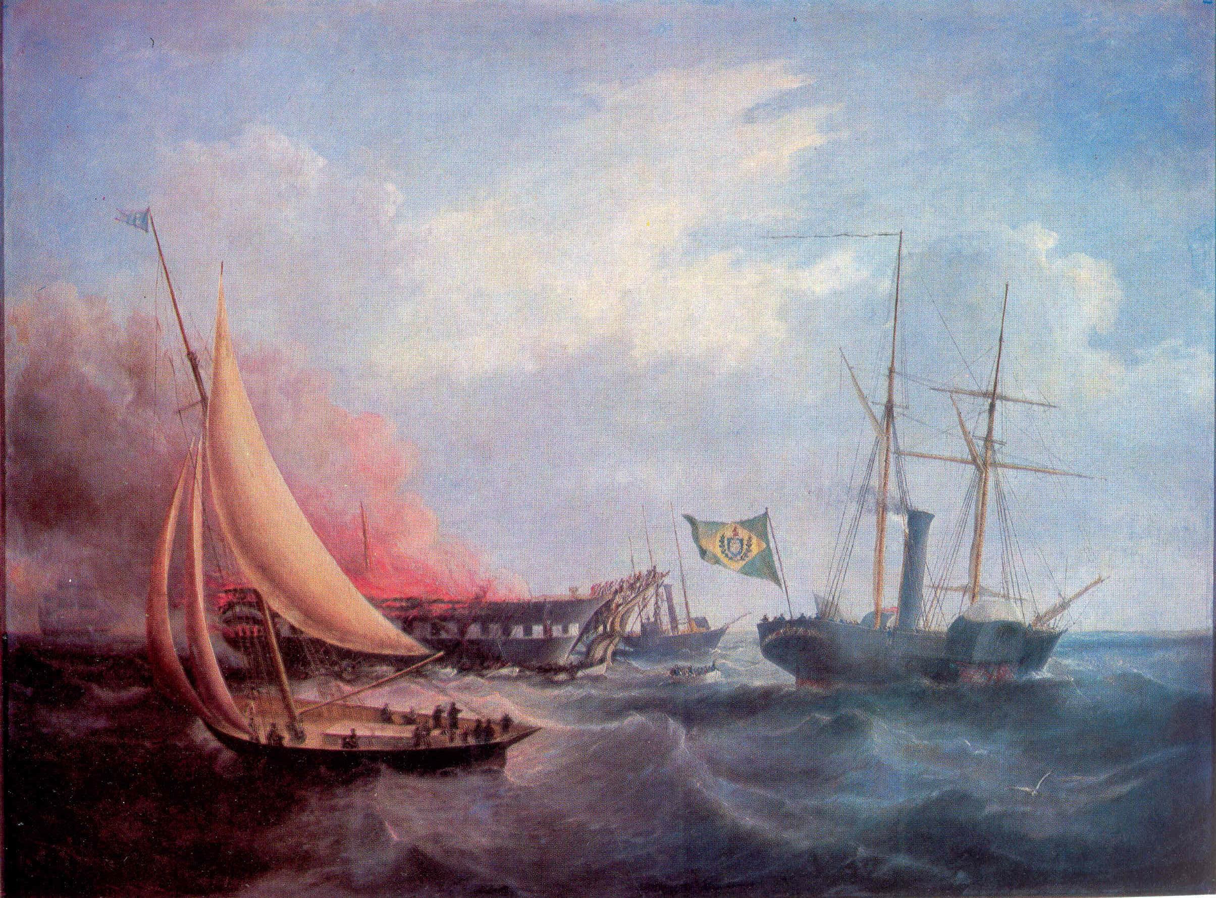 Salvamento da Ocean Monarch. A 24 de agosto de 1848, sob o comando do capitão de Mar-e-Guerra Graduado Joaquim Marques Lisboa, o Vapor Dom Afonso suspendeu do Porto de Liverpool, Inglaterra, para realizar as últimas experiências.